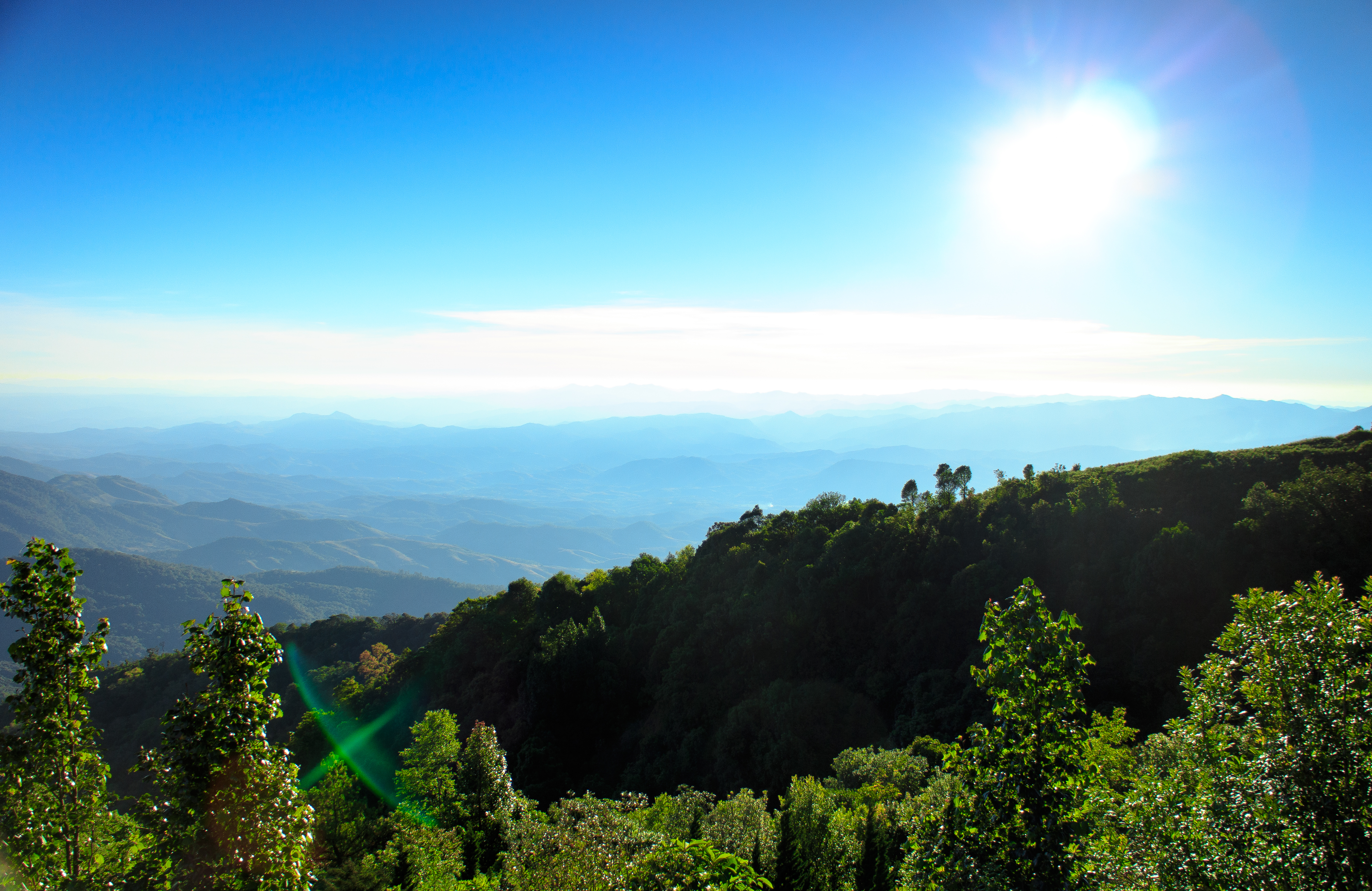 View from Doi Inthanon, facing the valley opposite the two Chedis